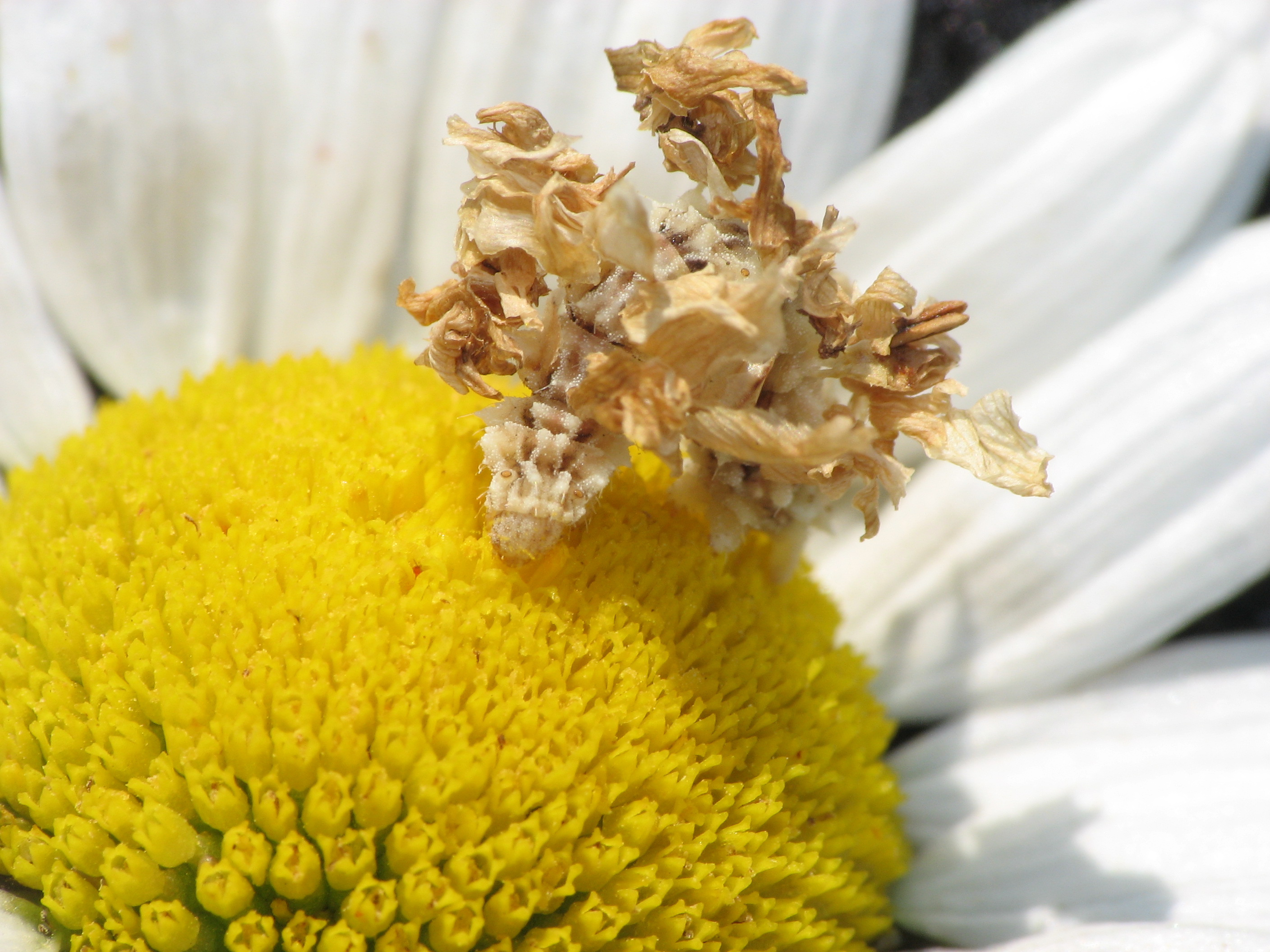 Caterpillar of emerald moth, Synchlora aerata (Wavy-lined Emerald - Hodges#7058), covered with plant fragments as camouflage. Horsham trail, Horsham, Montgomery Co. SE PA.